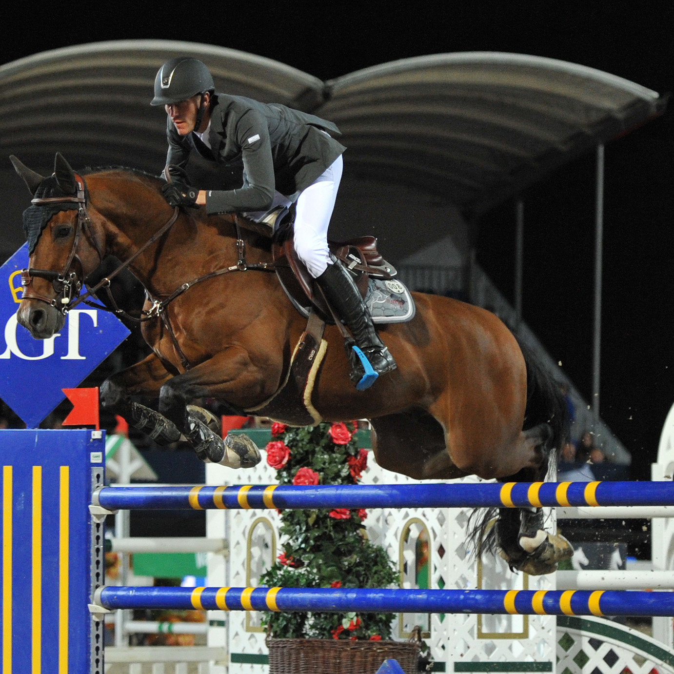 Vienna Masters am 21. September 2013 Longines Global Champions Tour Kevin Staut (FRA) auf For Joy van't Zorgvliet HDC